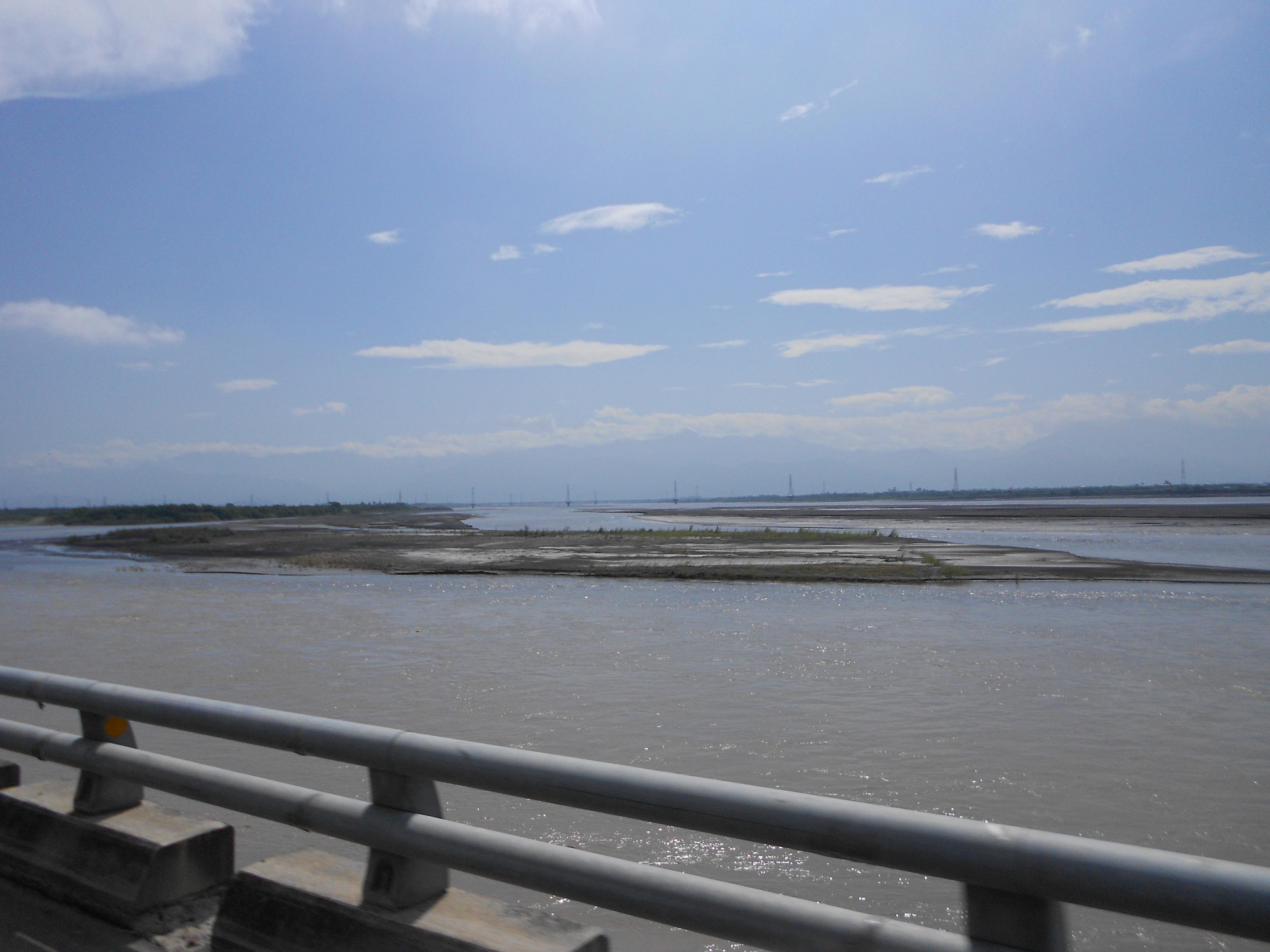 Gaoping River.